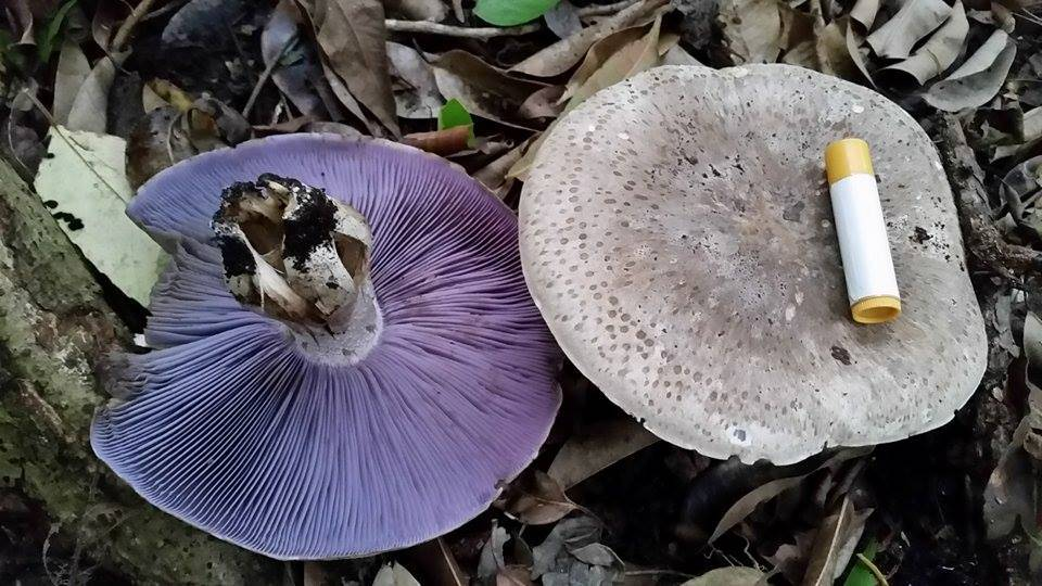 Asproinocybe R. Heim Image location: Tangkoko Batuangus Nature Reserve, Manado, Sulawesi, Indonesia Recognized by sight For more information about this, see the observation page at Mushroom Observer.